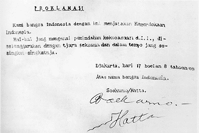 Indonesian Declaration of Independence, kept at the National Monument (Monumen Nasional) in Jakarta, Indonesia